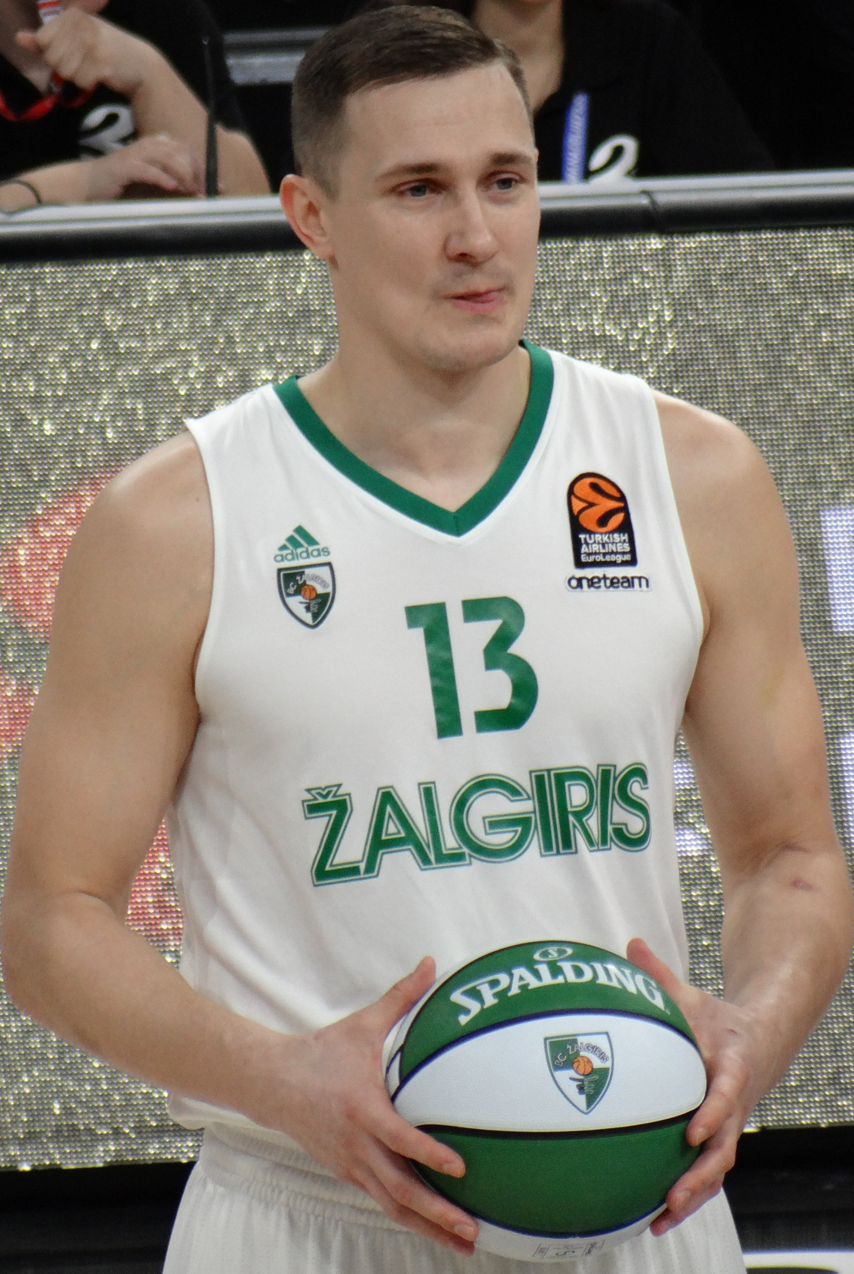 Paulius Jankūnas 13 BC Žalgiris EuroLeague 20180223